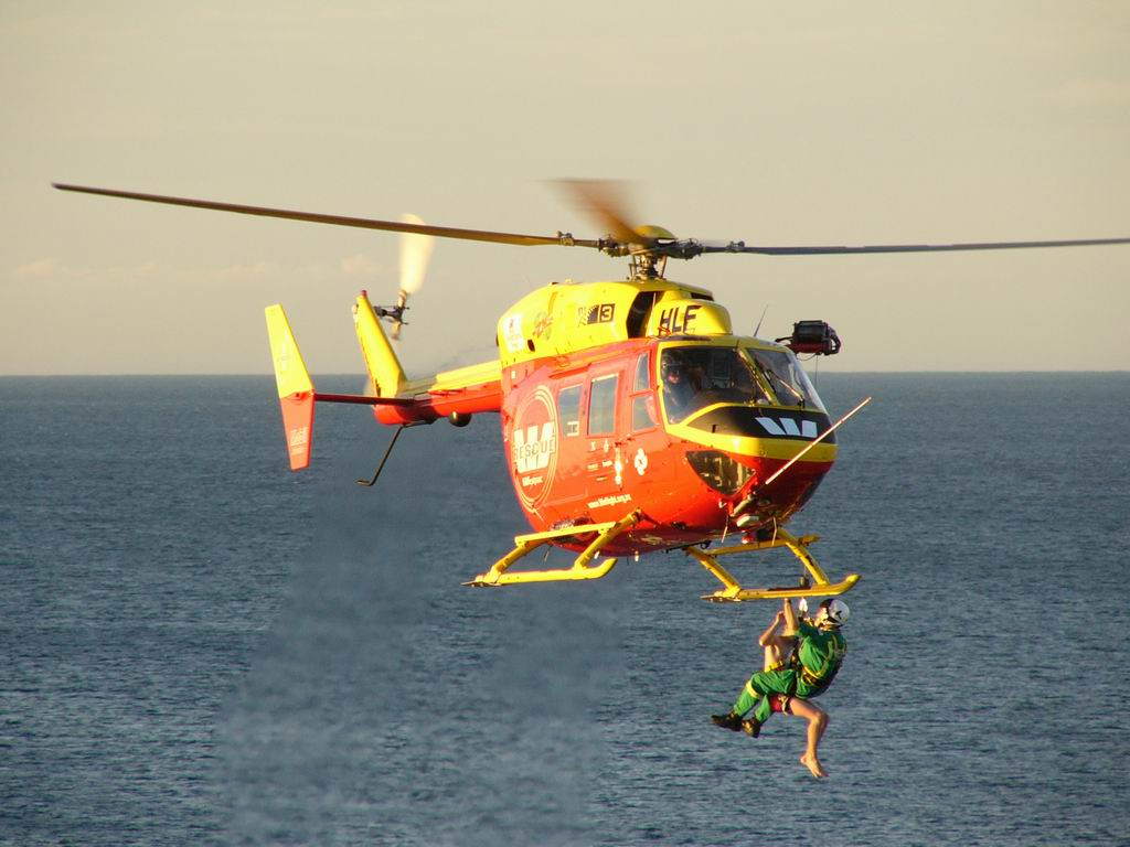 Wellington's WestpacTrust Rescue Helicopter rescues a patient off rocks near Titahi Bay. A Wellington Free Ambulance Paramedic retrieves the patient